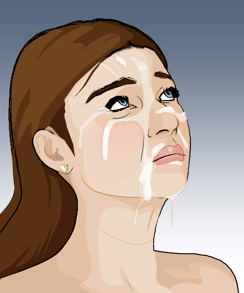 An illustration of a woman getting a facial in a NPOV light